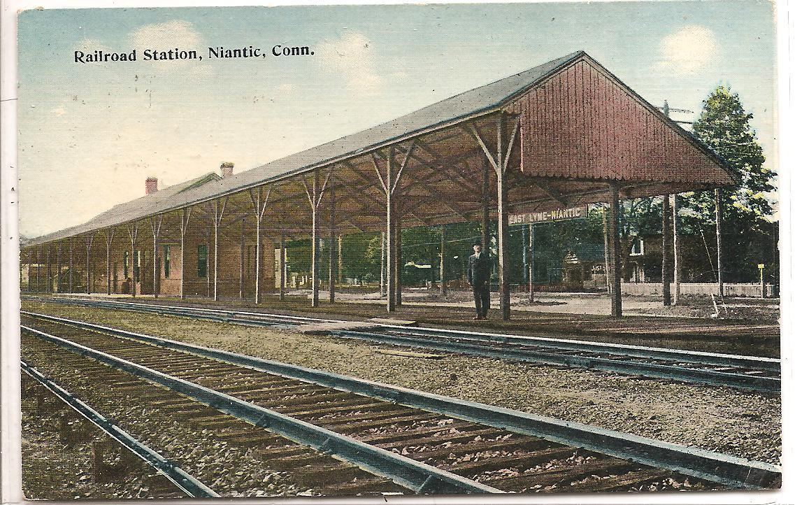 1915 divided back postcard of Niantic station